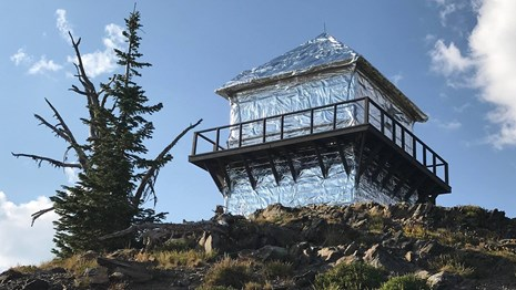 Mount Brown Fire Lookout is wrapped to help it withstand the Sprague Fire